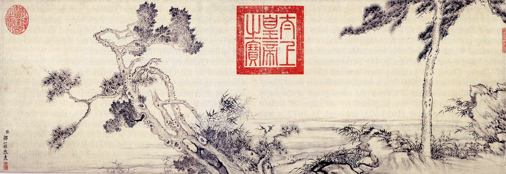 Zou Yigui's colophon painting to the Song dynasty Palace Museum copy of the "Admonitions Scroll", attributed to Gu Kaizhi